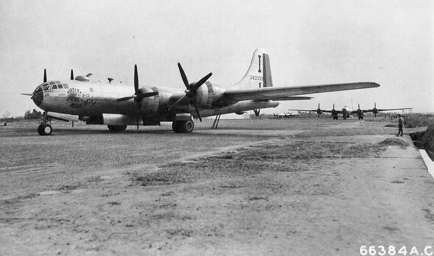 "Rush Order" Bell-Atlanta B-29-10-BA Superfortress s/n 42-63393 768th Bomb Squadron, 462nd Bomb Group, 58th Bomb Wing, 20th Air Force. Photo taken at: Piardoba Airfield, India